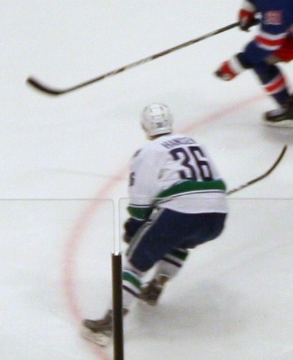 Jannik Hansen during an NHL game at Madison Square Garden versus the New York Rangers.